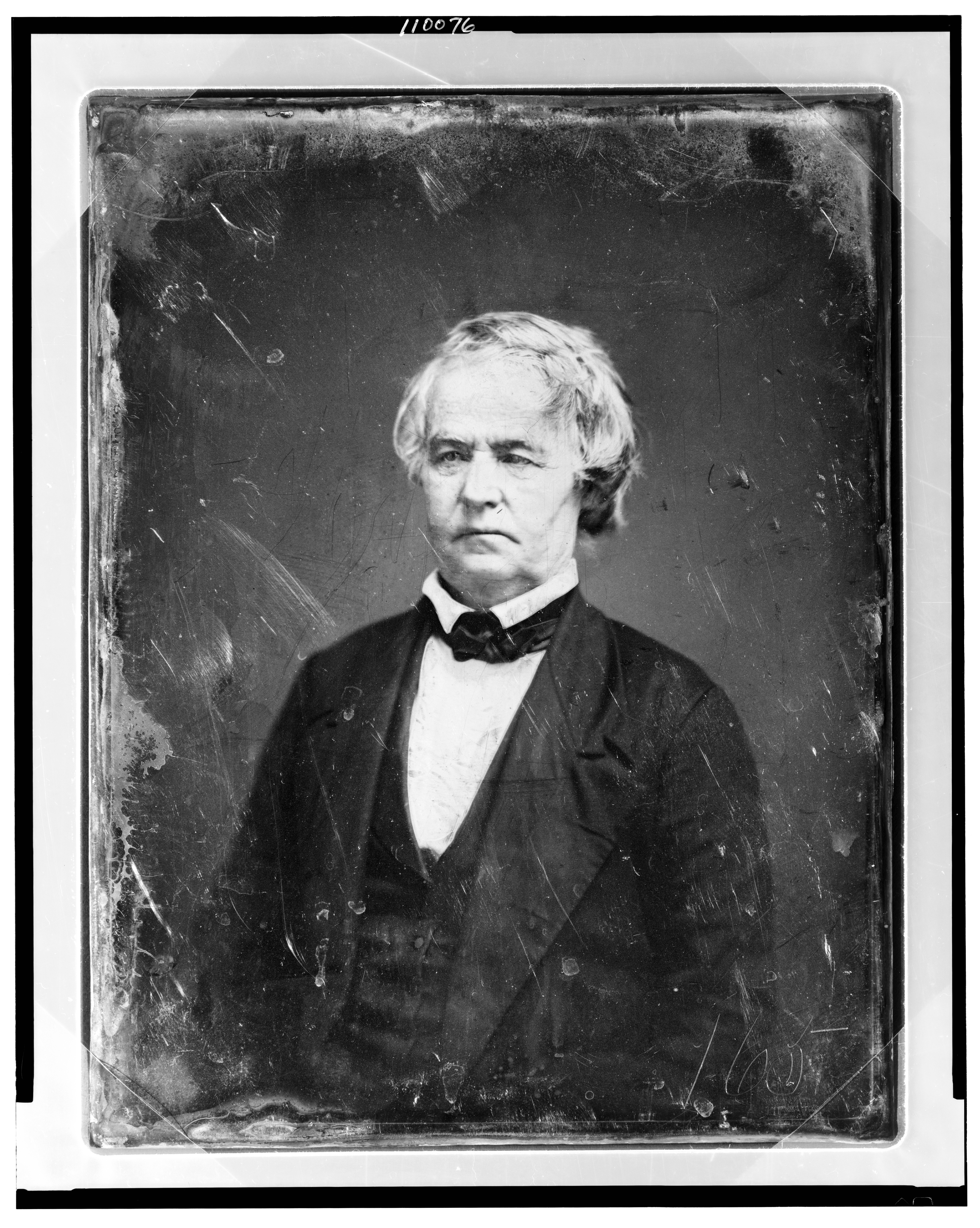 Joseph Vance, half-length portrait, slightly to the left . Democratic Congressman from Ohio, 1822-1835; Governor, 1836-1838; Whig Congressman, 1843-1847.